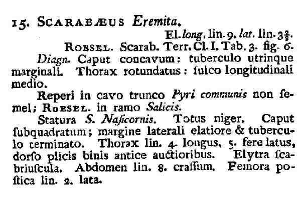 Original scientific description of the beetle Osmoderma eremita from the book Entomologia Carniolica (in Latin)